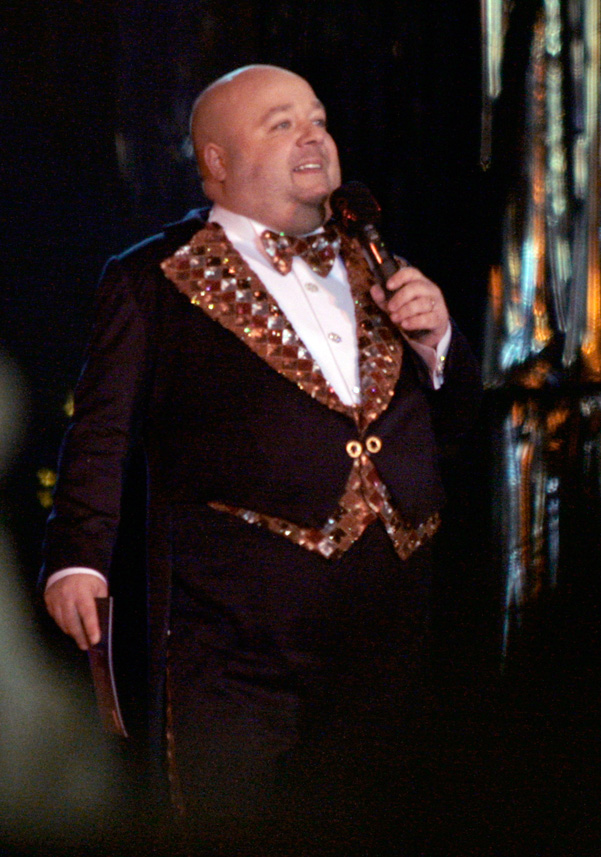 Dirk Bach at the Life Ball 2009, Rathaus, Vienna.